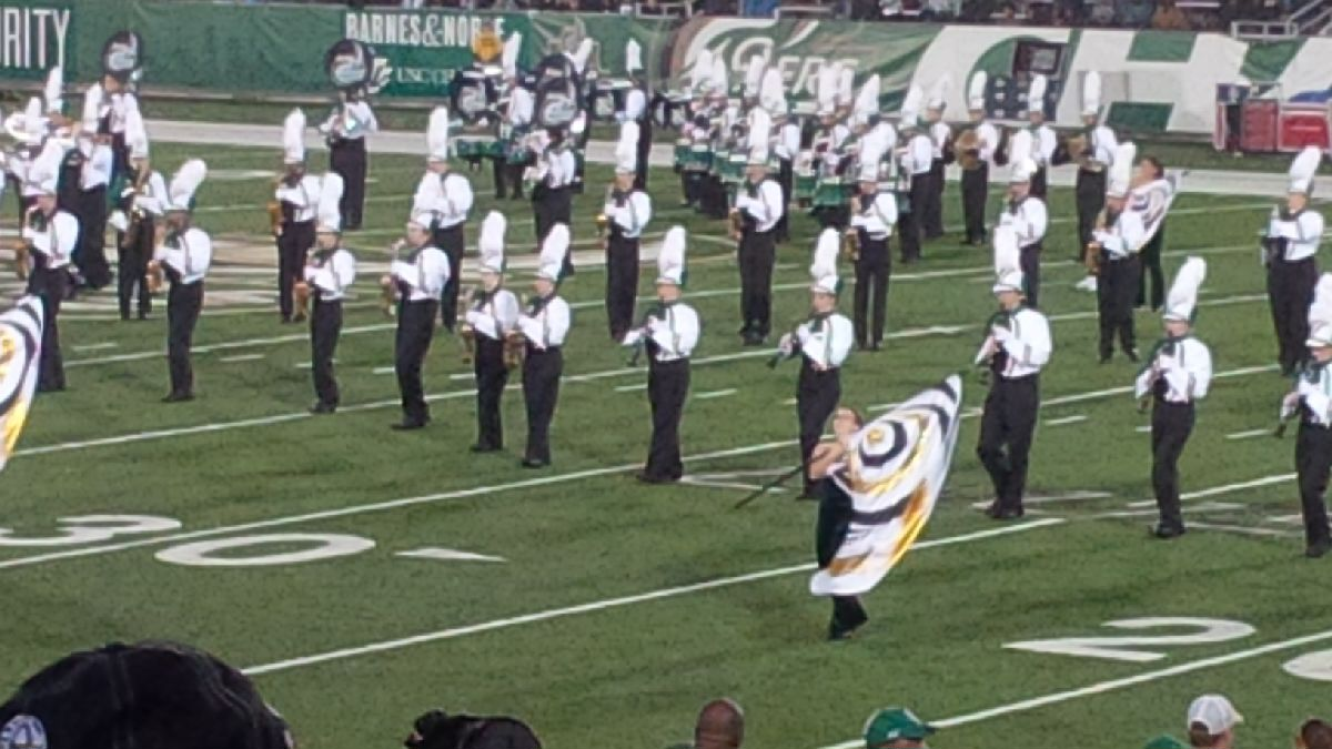 PNNMB Halftime Show 2016